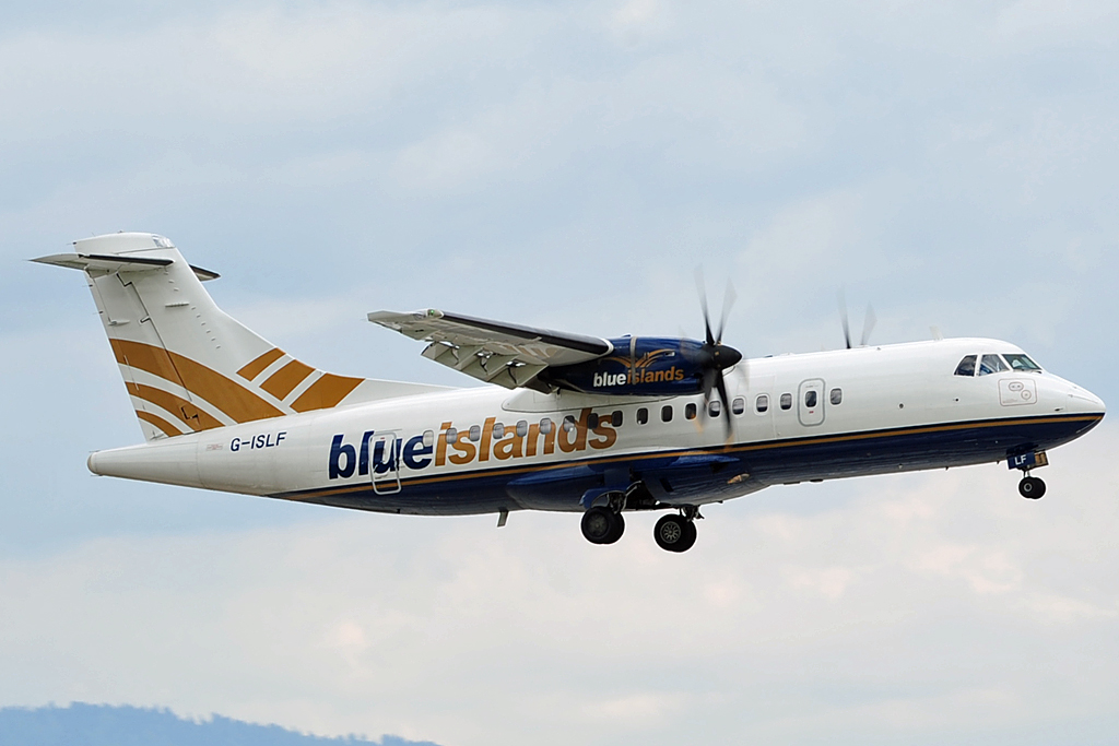 G-ISLF ATR 42-512 of Blue Islands landing at Geneva on May 15, 2012.